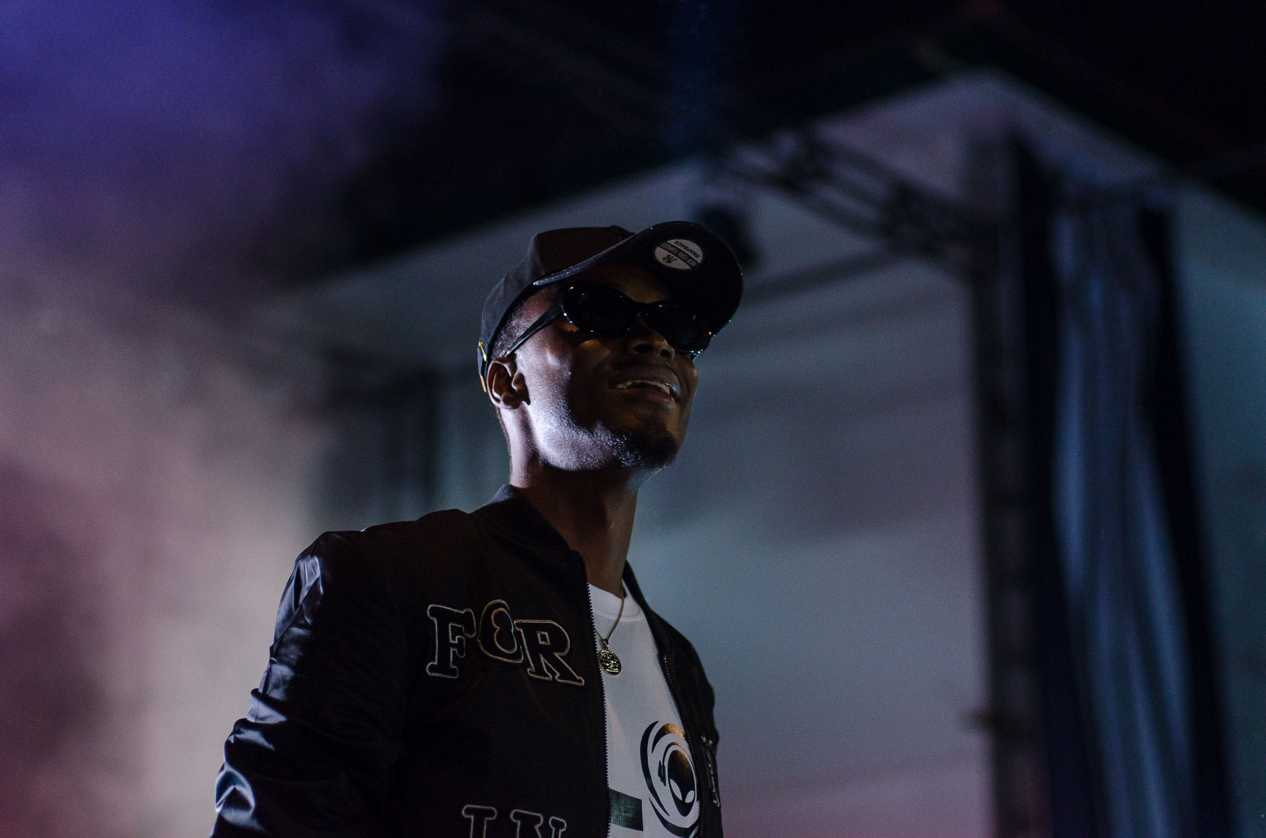 EL is a rapper from Ghana.